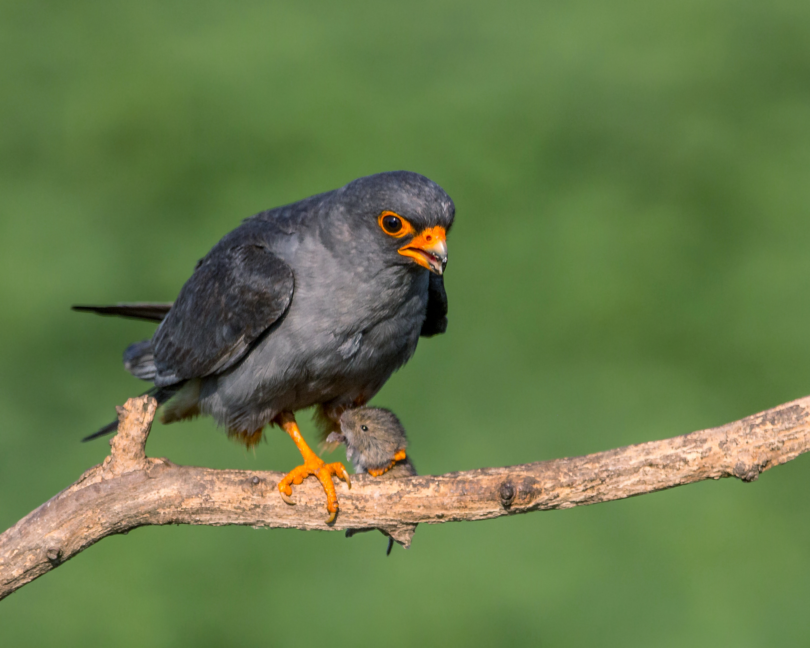 This male red-footed falcon is a great hunter much to the envy of all but his partner. Taken in Hungary.